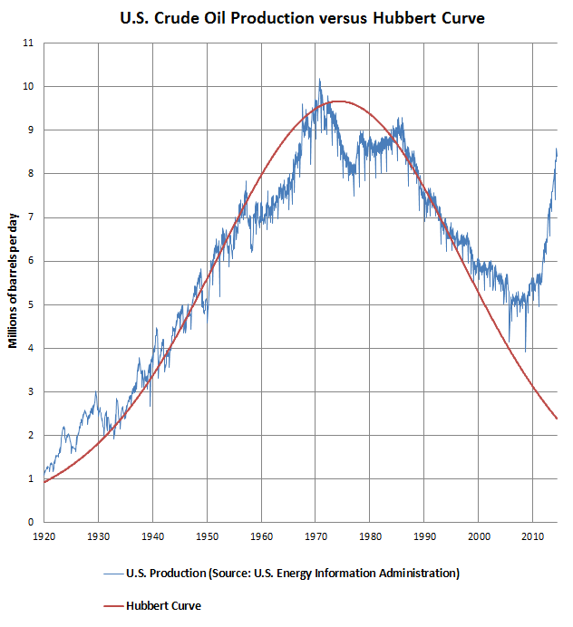 US Crude Oil Production 1900 to 2010 matched against a typical Hubbert Curve. Data from the US Energy Information Administration.